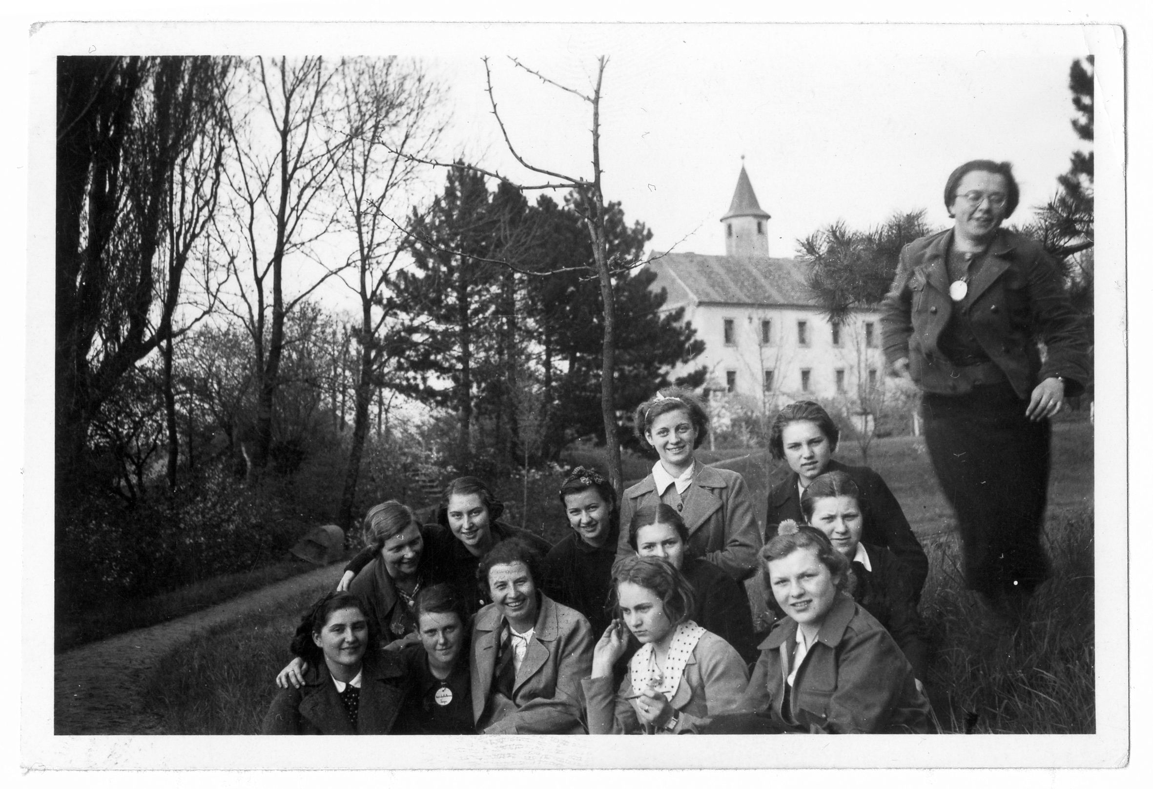 Castle in Přerov nad Labem, Czech Republic in 1930 - YWCA members on summer camp in Polabí.